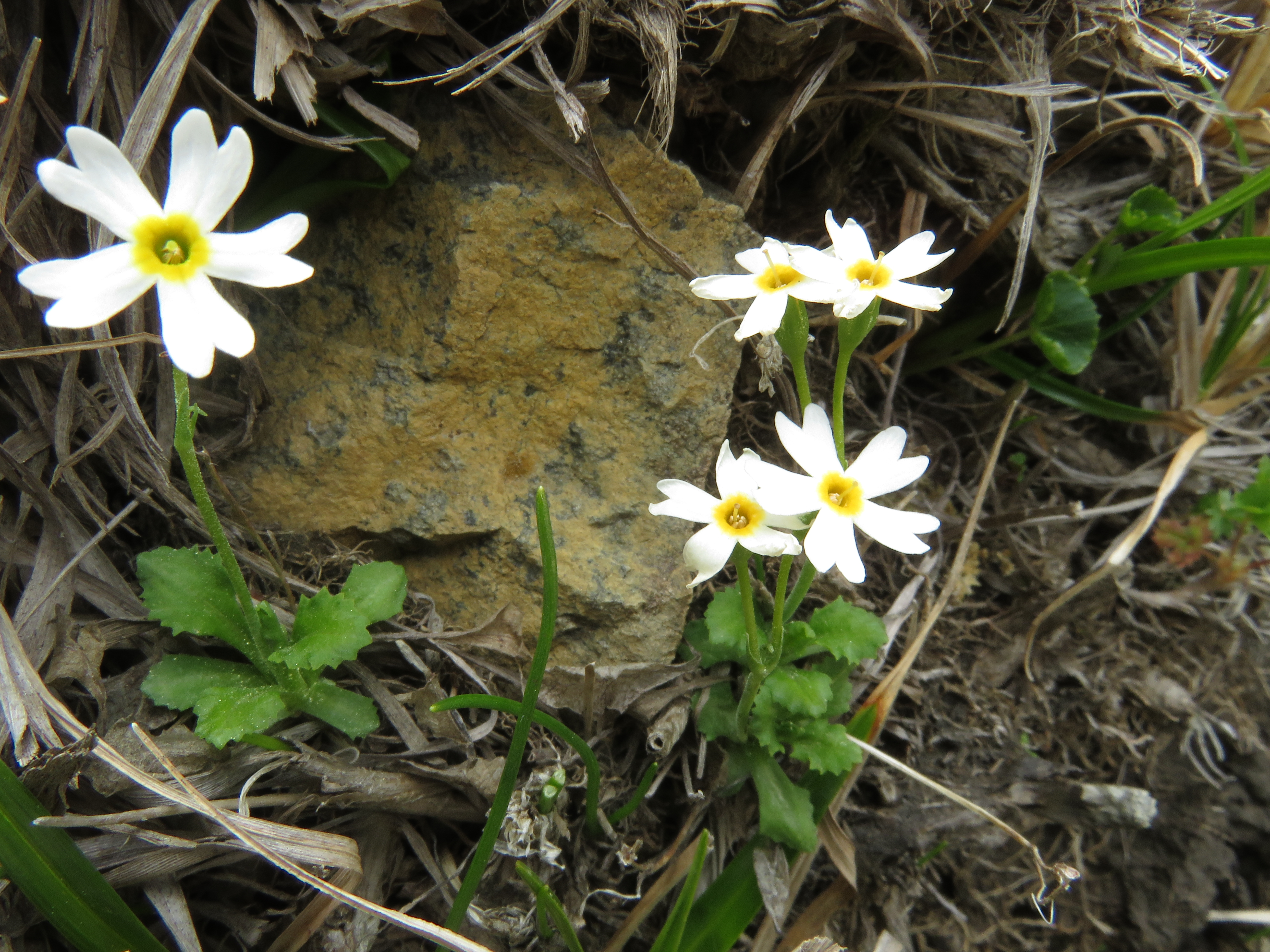 Primula macrocarpa, Mount Hayachine, Iwate pref., Japan